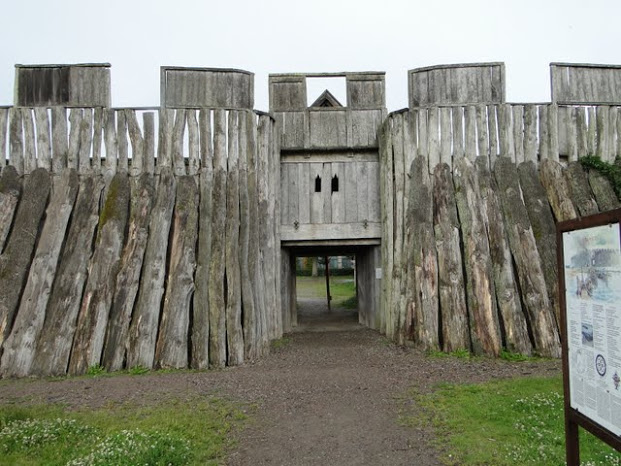 The Main Gate